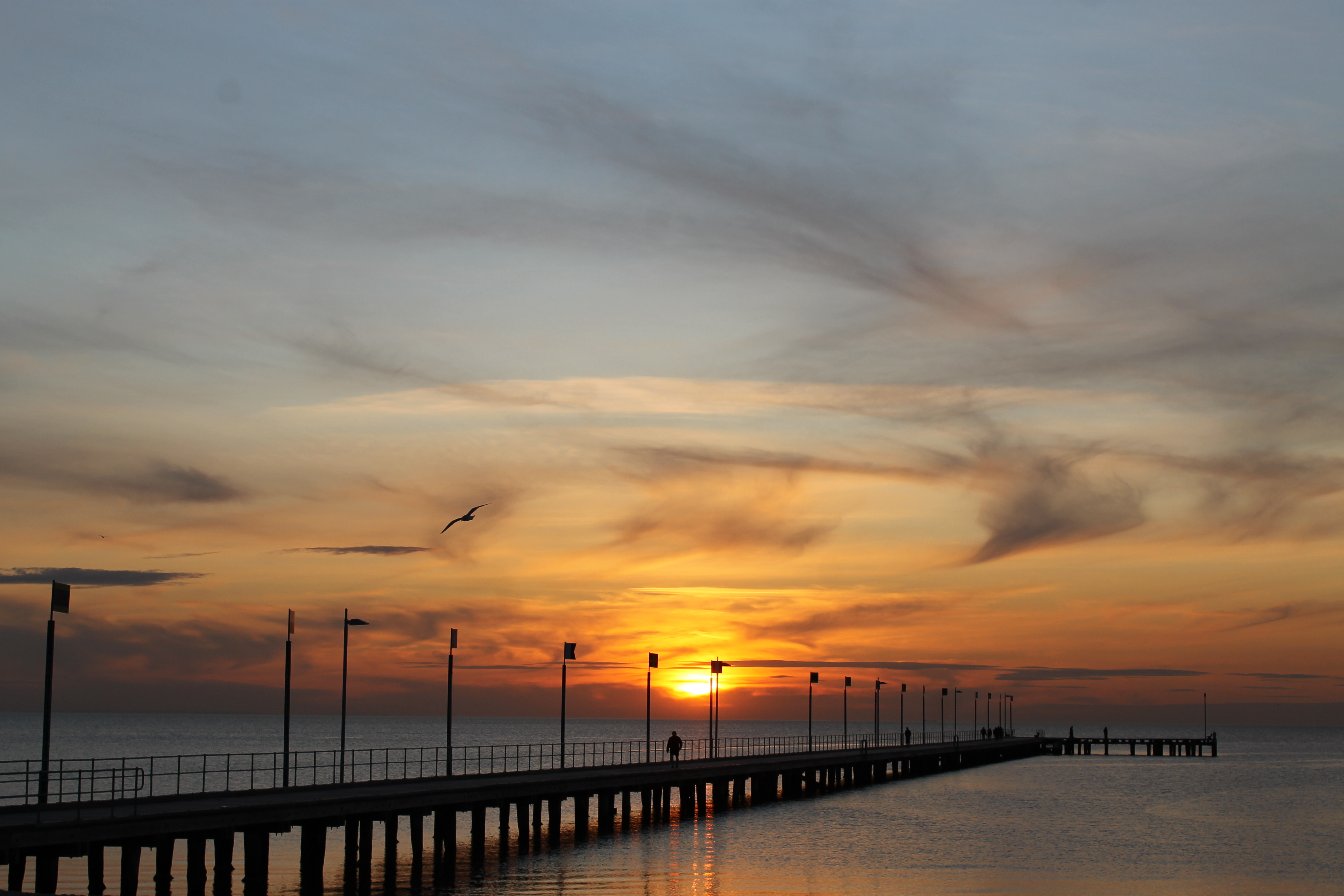 Frankston Pier at sunset in Frankston, Victoria, Australia.